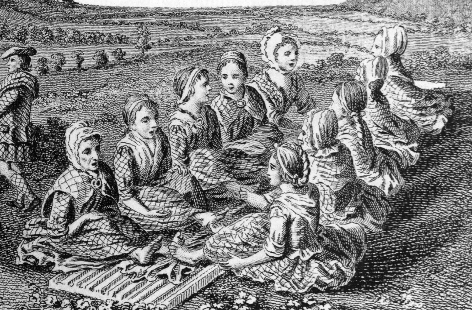 Detail of an 18th century engraving of Scotswomen waulking (fulling) cloth, and singing.